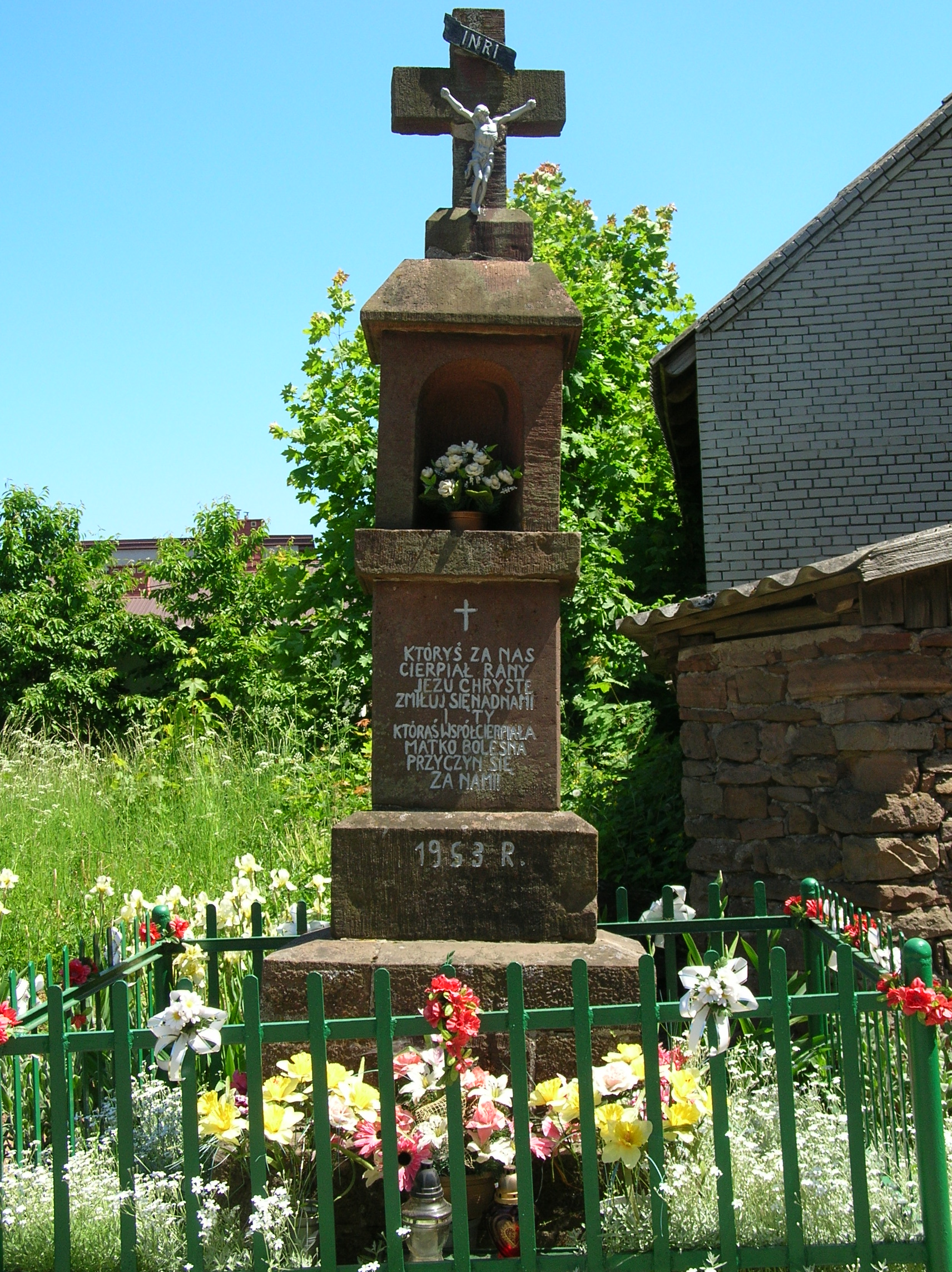 Crucifix in Zachełmie (Holy Cross Mts.)